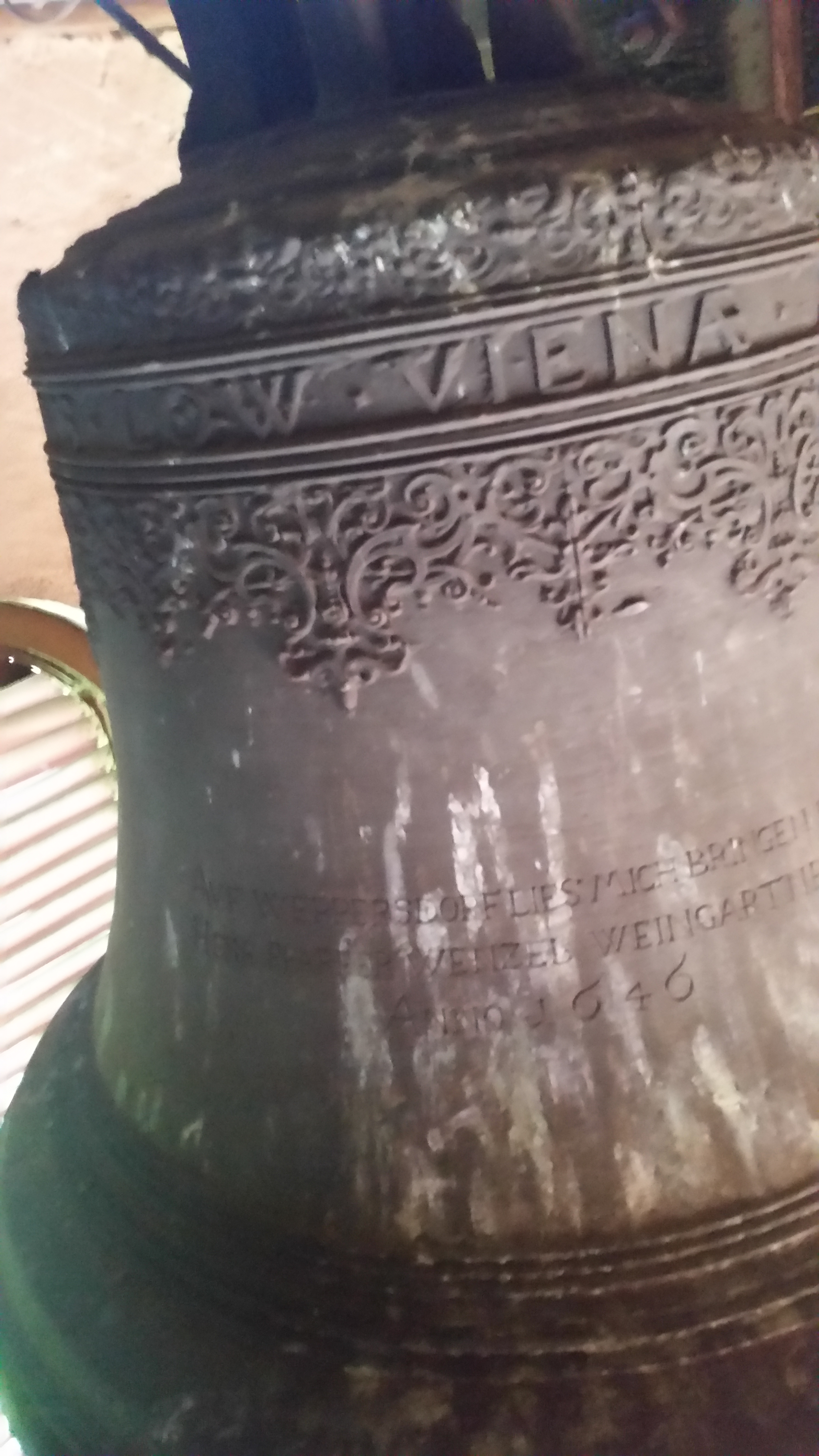 Vaterunserglocke - A very old bell from the year 1645 that hang in the protestant church in Weppersdorf (Burgenland, Austria)